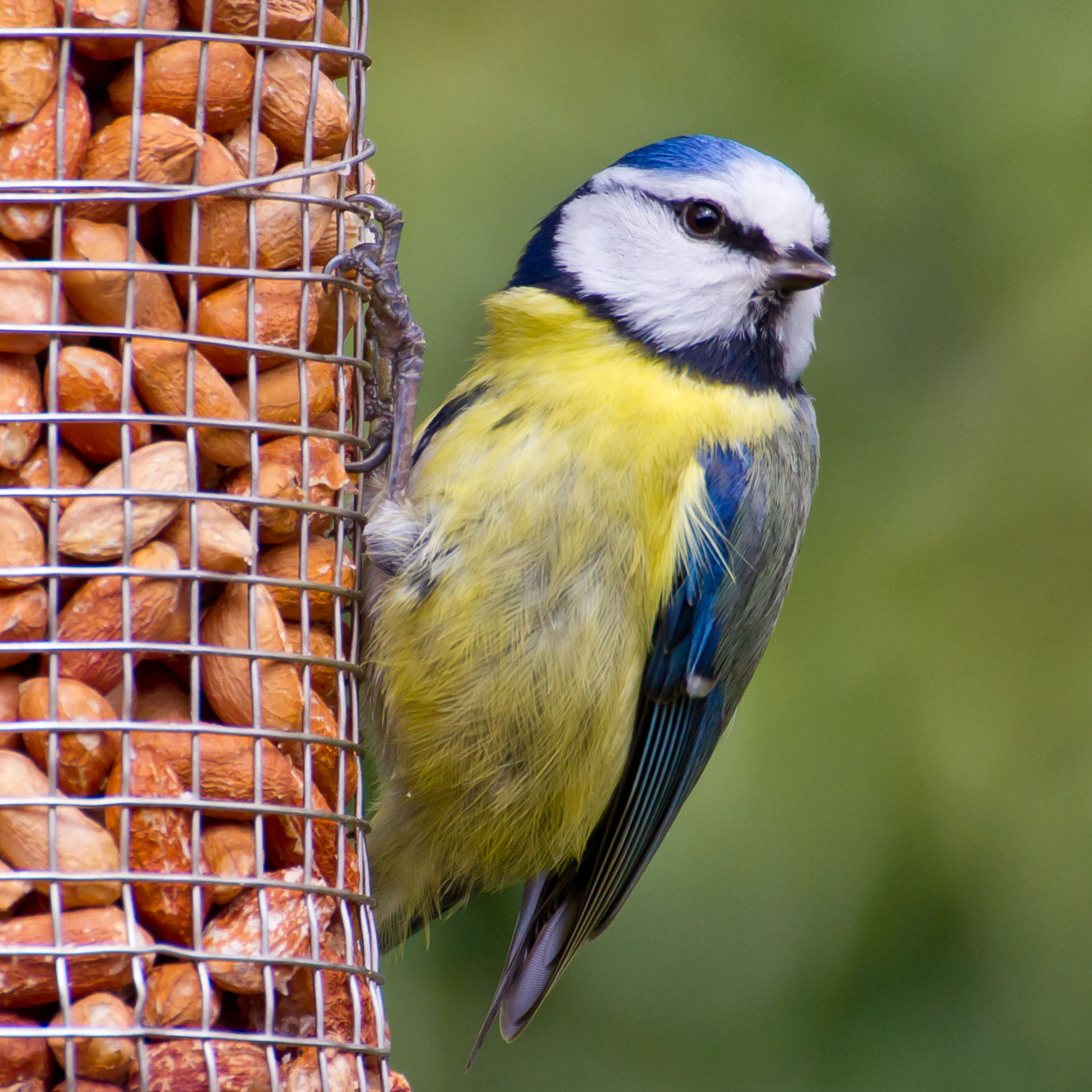 Blue Tit hanging onto a bird feeder